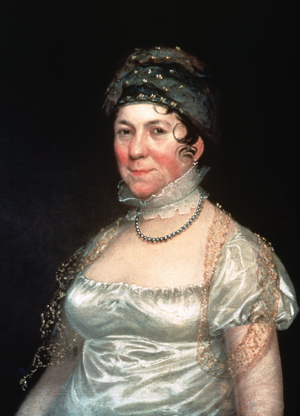 Mrs. James Madison (Dolley Madison)